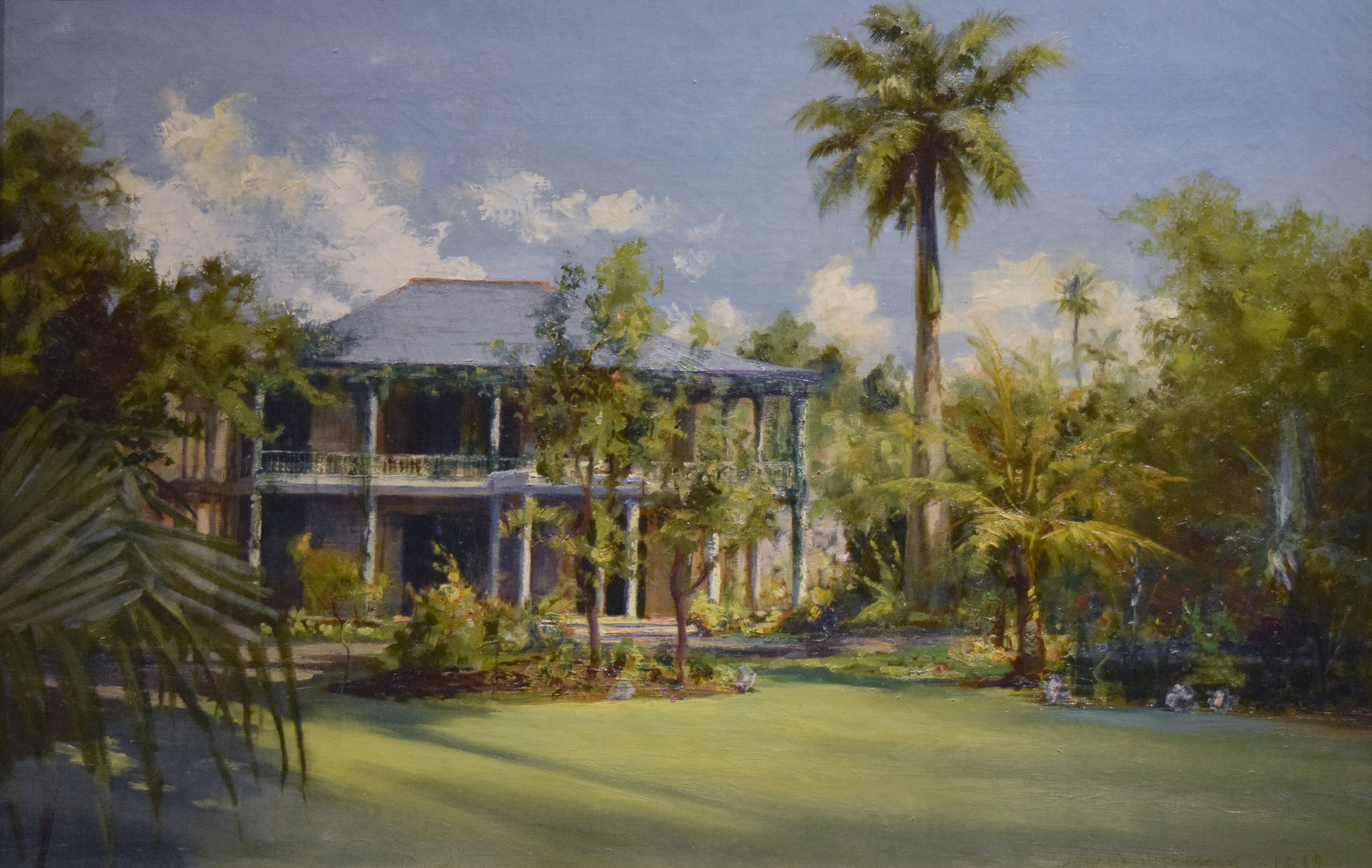 Haleakala - The C. R. Bishop Residence, oil on canvas painting by D. Howard Hitchcock, 1899, Bishop Museum